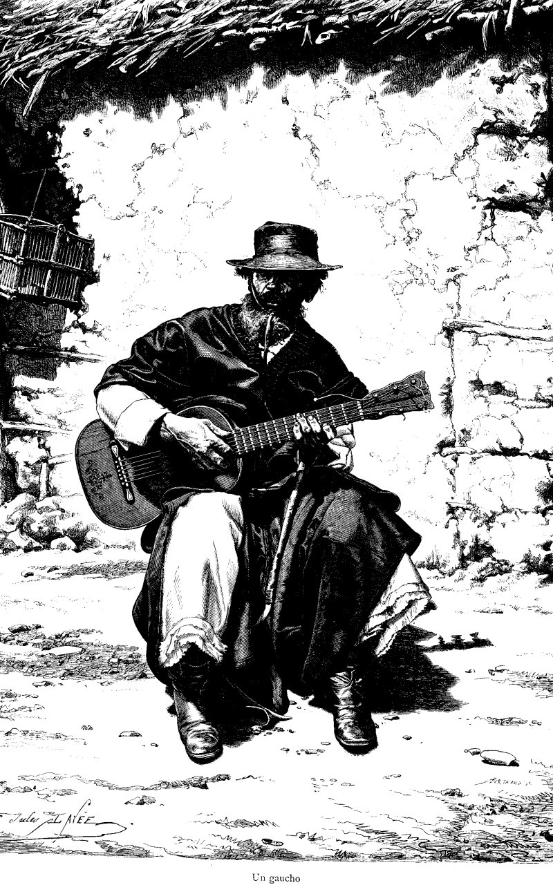 Drawing of an Argentine gaucho playing his guitar.